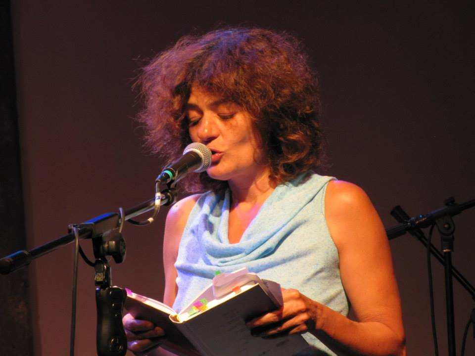 Israeli poet Efrat Mishori reading from her poetry